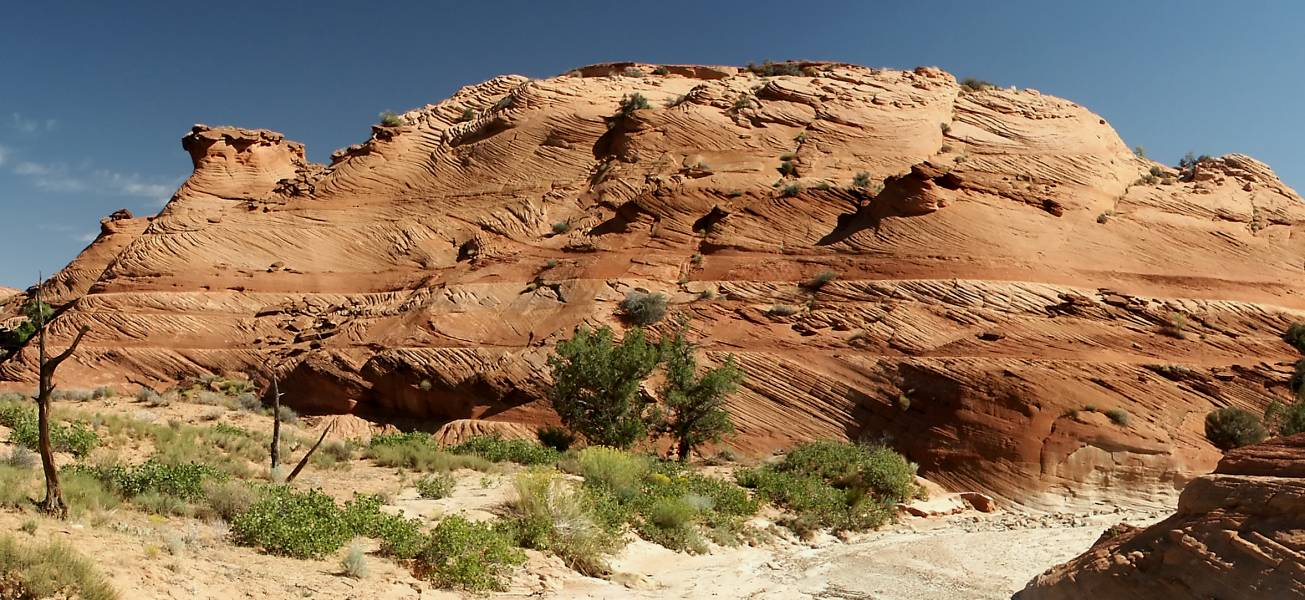 Sandstone dome in the Dry Fork of Coyote Gulch, part of the Canyons of the Escalante. This dome exhibits crossbedding and layering, remnants of its origins as sand dunes.